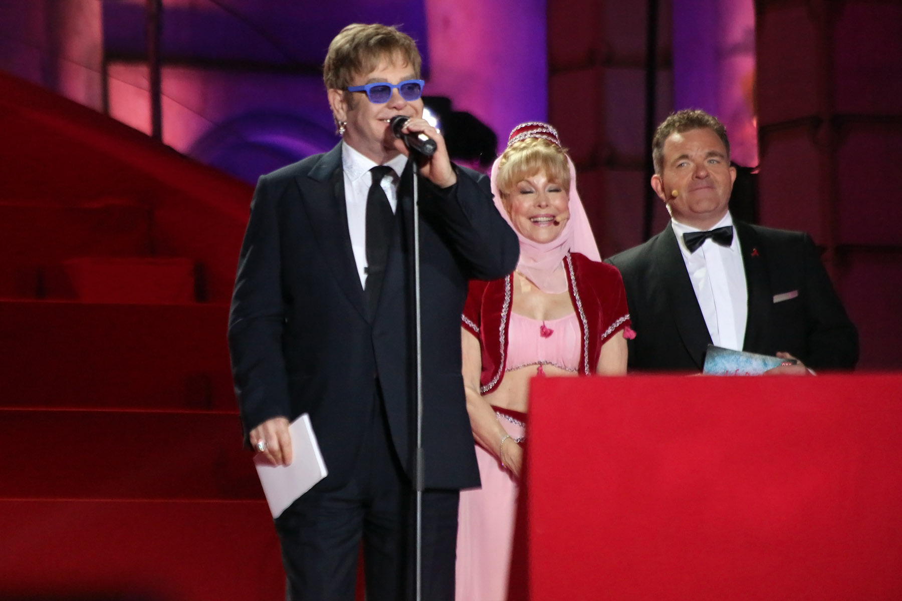 Barbara Eden, Sir Elton John (Elton John AIDS Foundation) and Cornelius Obonya, opening show of Life Ball 2013 at the city hall of Vienna, Vienna, Austria.